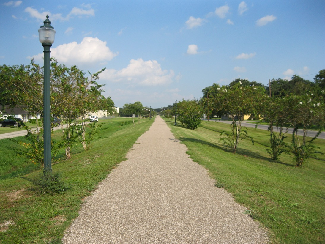 Photo shows the Santa Fe Trail at Pecan Street in Wharton, Texas. The view toward the east-southeast.